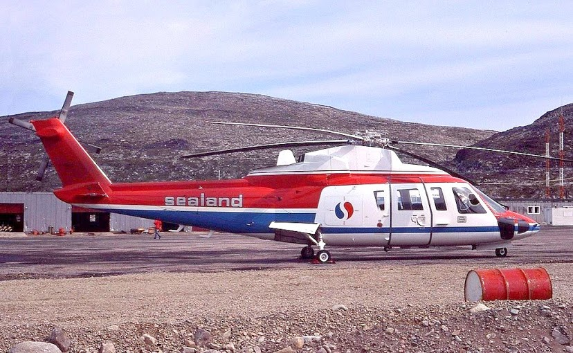 Sealand Helicopters S76-A C-GSLE at Saglek Base, Labrador, Canada on 20 August 1981